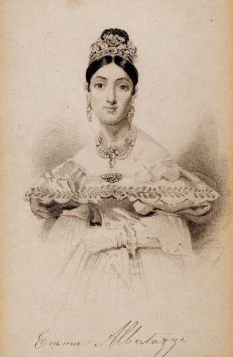 Etched portrait of Emma Albertazzi